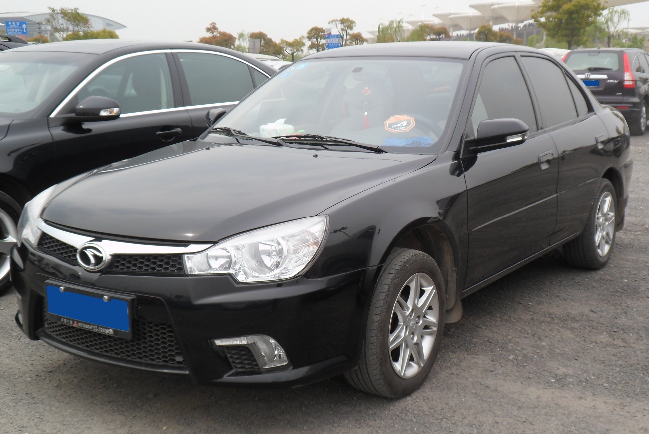 Soueast V3 photographed in Anting, Shanghai municipality, China.